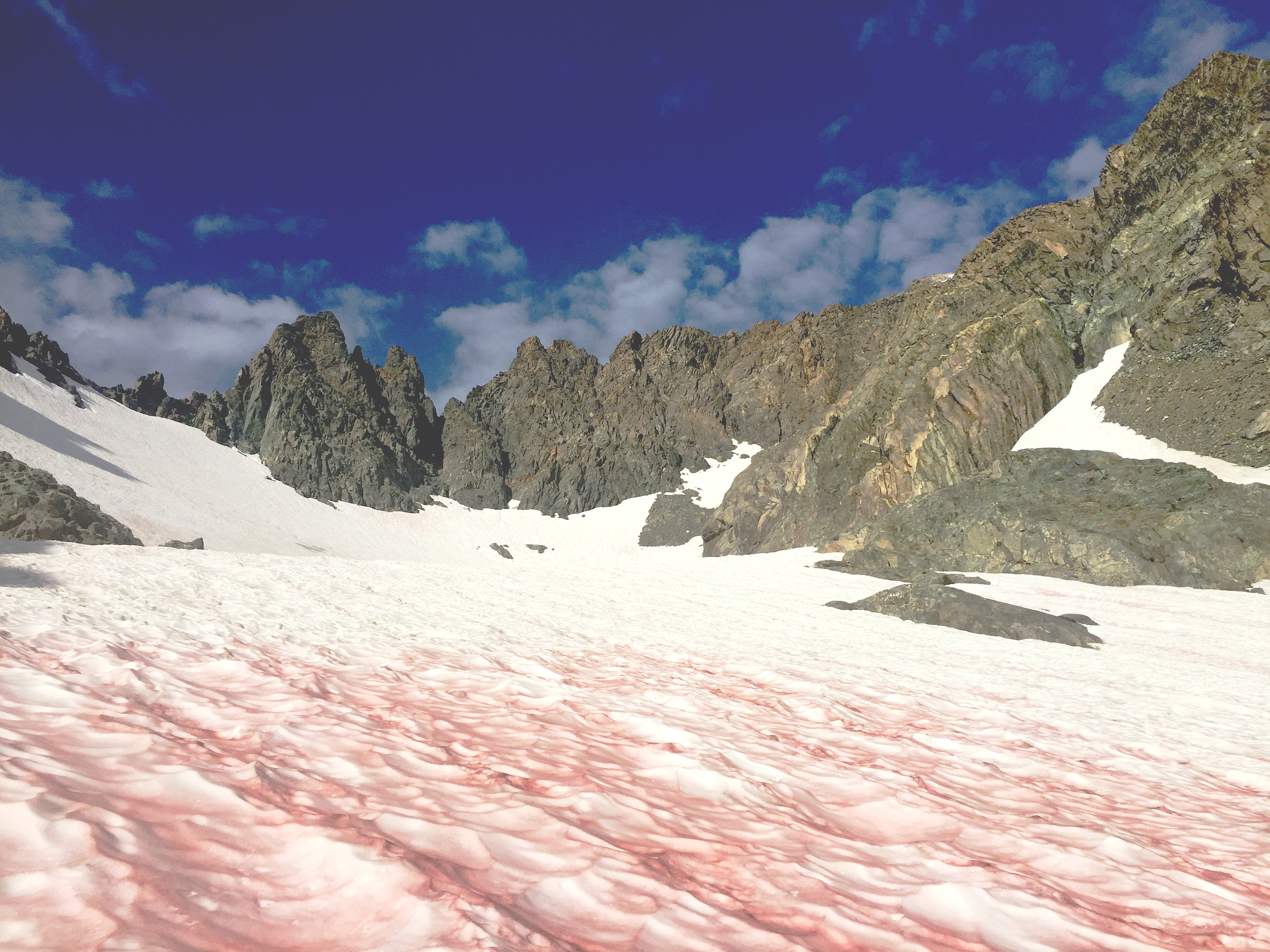 Hiking/Climbing Mount Ritter on the Inyo National Forest, Ansel Adams Wilderness, Aug. 28, 2017. Approaching the middle of the Southeast Glacier and the chutes to the summit snowfield are visible to the right. "Blood" colored snow is from algae. Temps in 60-70s. No wind. (USDA photo by Paul Wade)